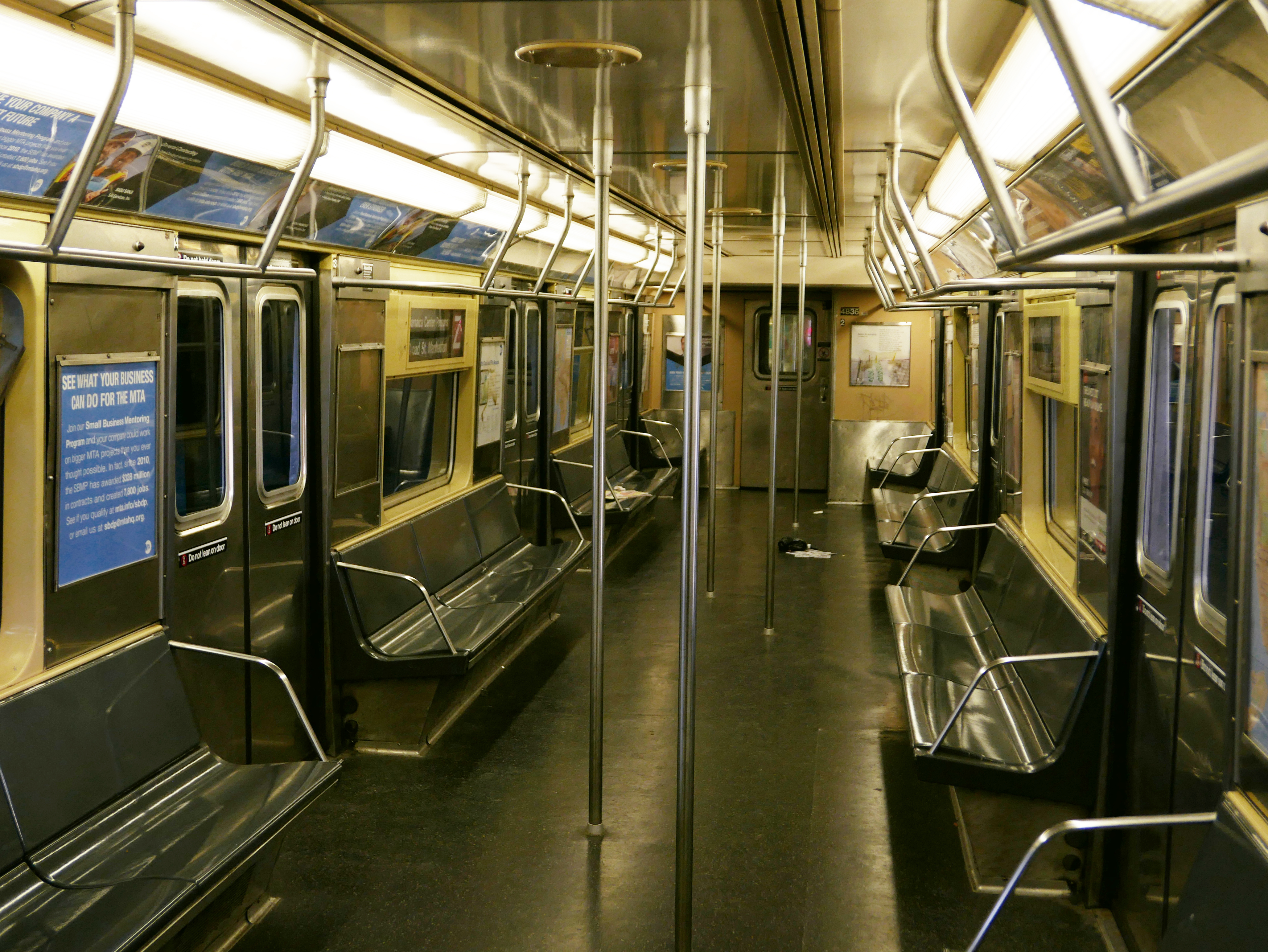 Taken from within the seventh car of a southbound R42 Z train at Broadway Junction, under the overpass. Camera facing northbound.